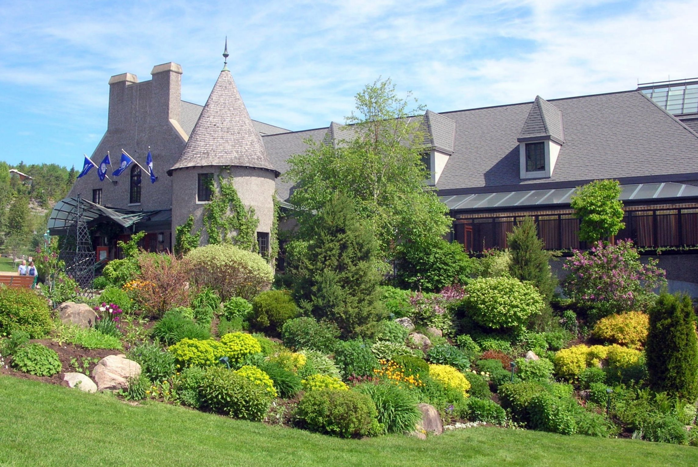 The Casino de Charlevoix, la Malbaie, province of Quebec, Canada